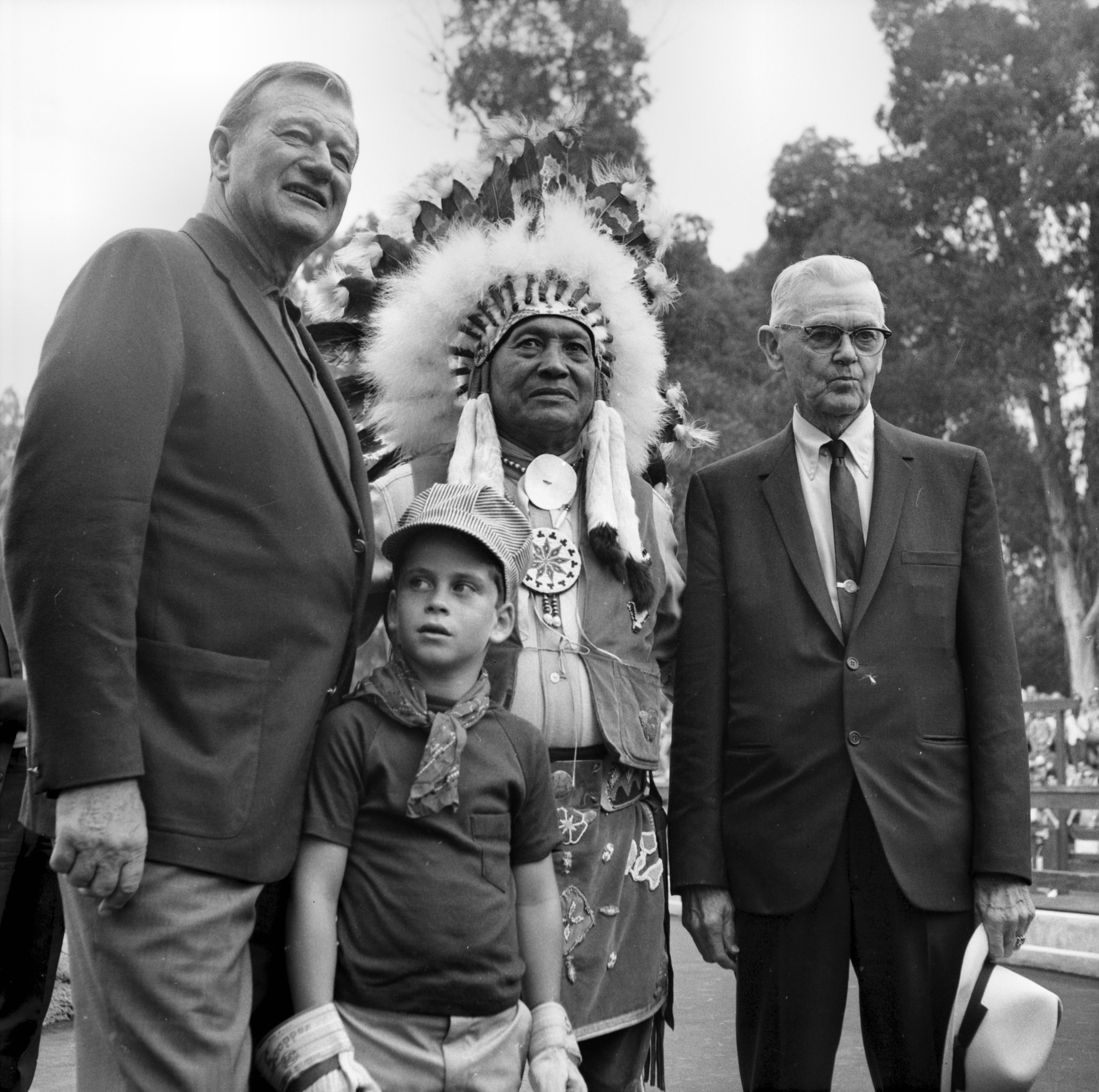 John Wayne, Ethan Wayne, unknown person in costume, and Walter Knott, at the Log Ride opening at Knott's Berry Farm, California, in 1969. There are no known copyright restrictions on this image. All future uses of this photo should include the courtesy line, "Photo courtesy Orange County Archives."